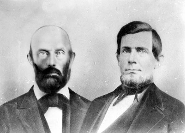 This is a portrait of James La Fayette Cottrell and his brother-in-law James McQueen.